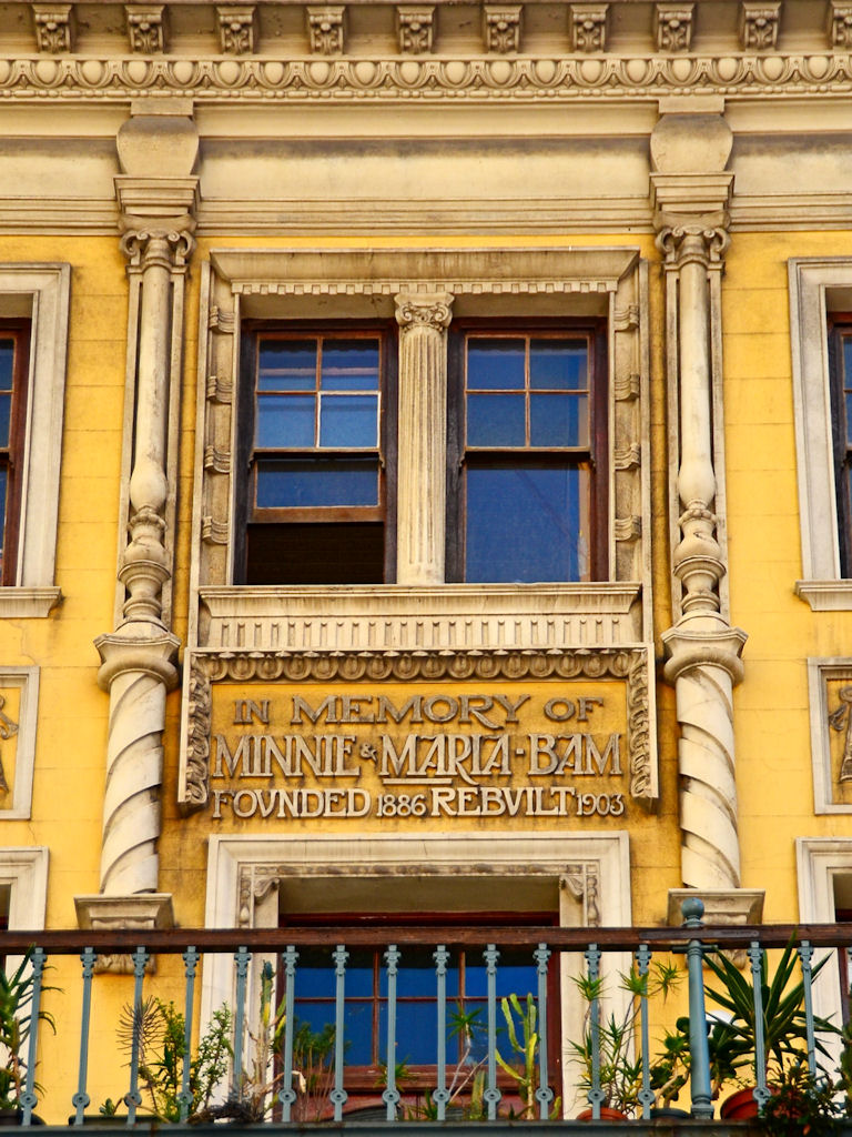 The YWCA is a triple storeyed Victorian building with a double level cast iron verandah. The main entrance doors are twin four-panelled teak doors. The ground floor has a grey granite surround with chrome trim around large windows. The facade of the build This Victorian building, which was rebuilt in 1903 by J. Parker of the firm Forsyth and Parker and dedicated to the memory of Minnie and Maria, daughters of J. A. Bam who died in Germany, forms an integral part of the architectural character of Long Street. Architectural style: VICTORIAN